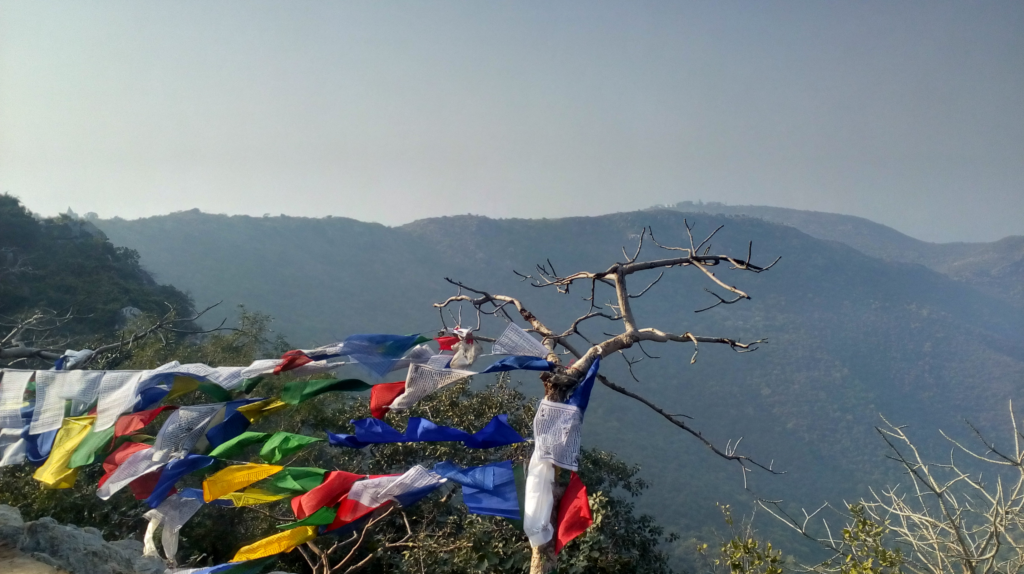 Beautiful view; Rajgir mountain,Bihar,India